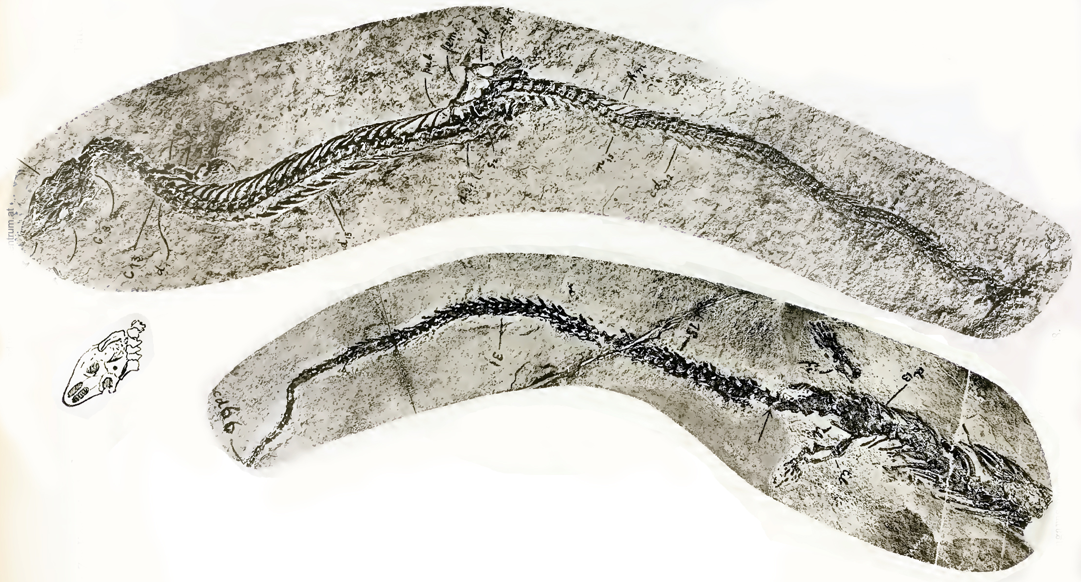 Two specimens of Adriosaurus suessi. London specimen above, with interpretative drawing of its skull on the left. Vienna holotype specimen below.